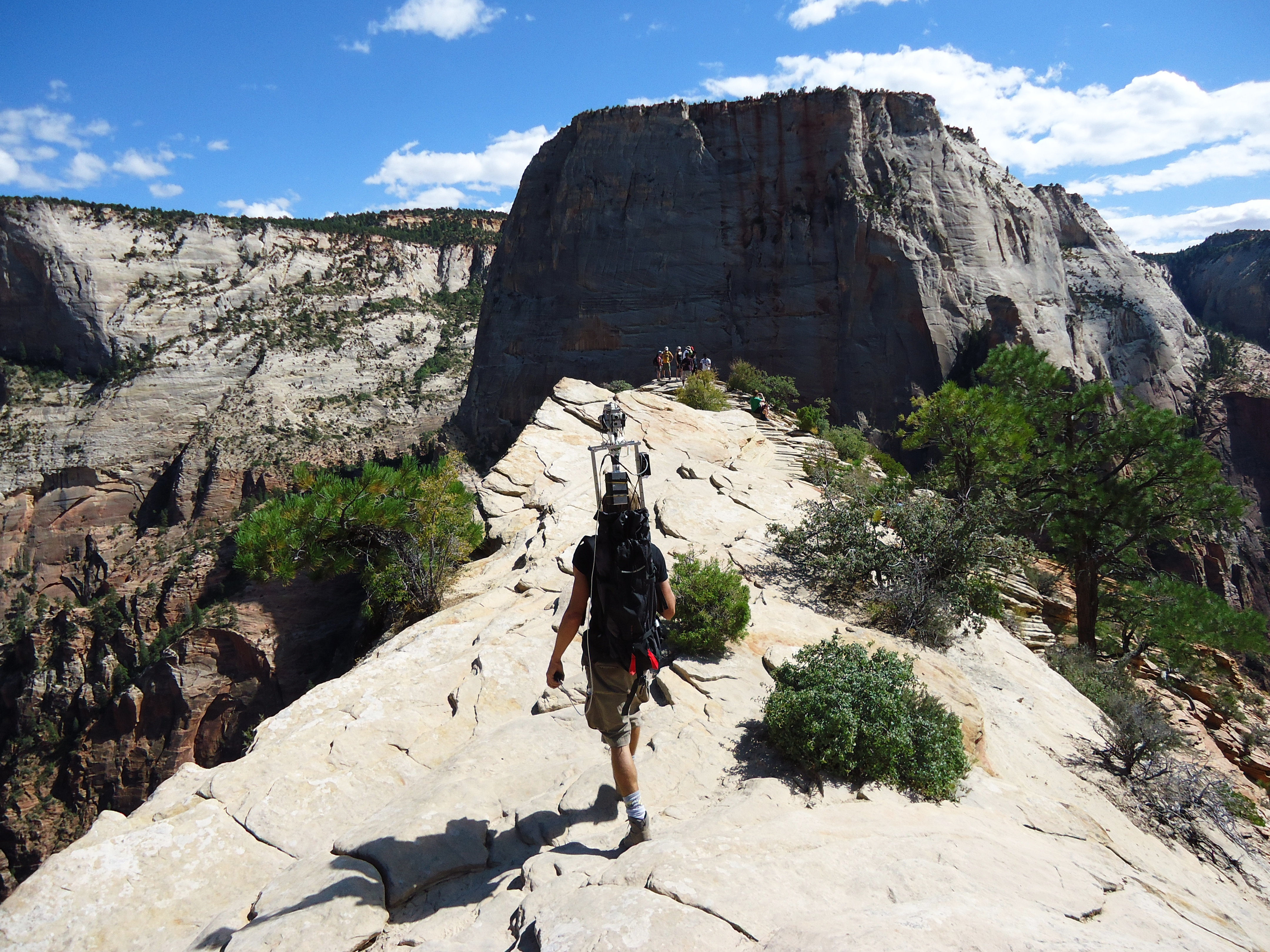 Acquisition of panoramic images using a device mounted on a backpack. Picture taken at Zion National Park - Utah